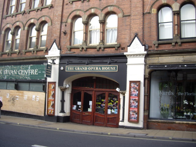 The Grand Opera House, York A grandiose name for a 'live theatre' venue in York.